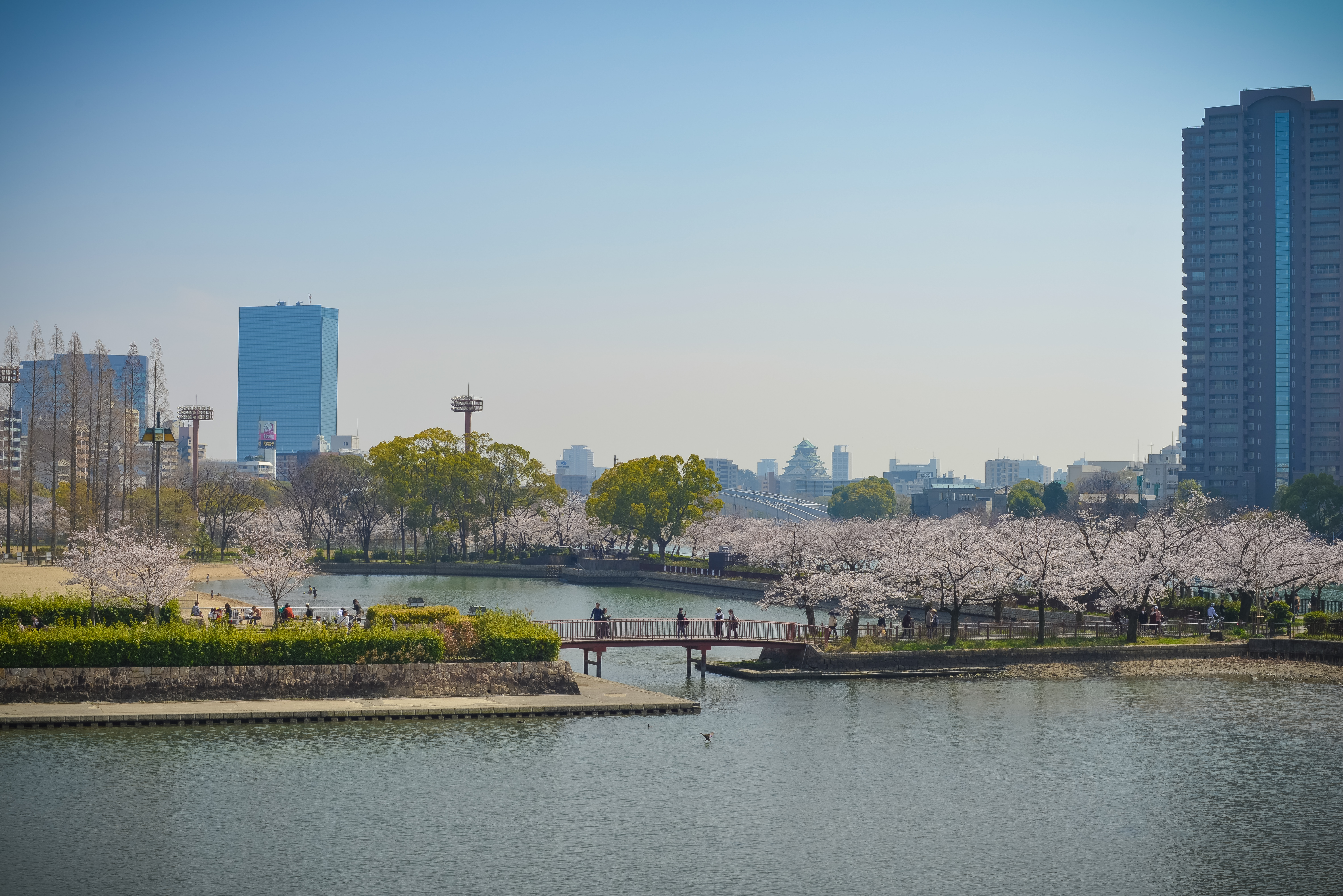 Cherry blossoms at Kema Sakuranomiya Park